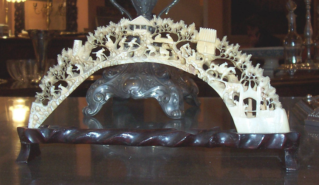 An ivory decoration. Some 90 years old, so in public domain. Photo © 2005 by Nikola Smolenski.